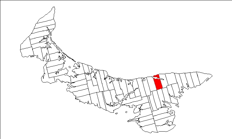 Public domain map of Prince Edward Island created by User:Plasma east with data courtesy of Geogratis, modified to show townships. Released under GFDL (self).